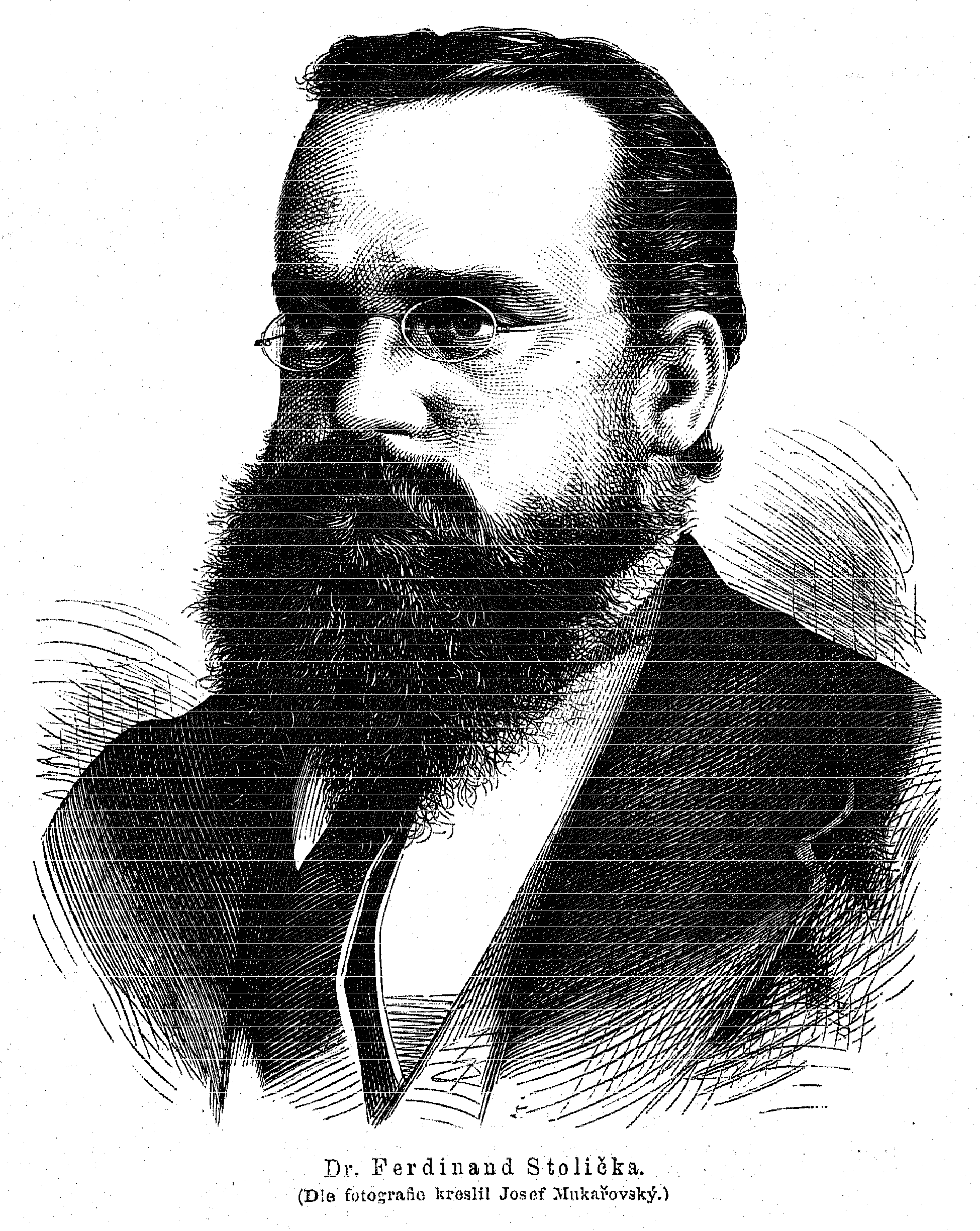 Portrait of Ferdinand Stoliczka (real surname: Stolička, 1838 - 1874), Czech geologist active in India